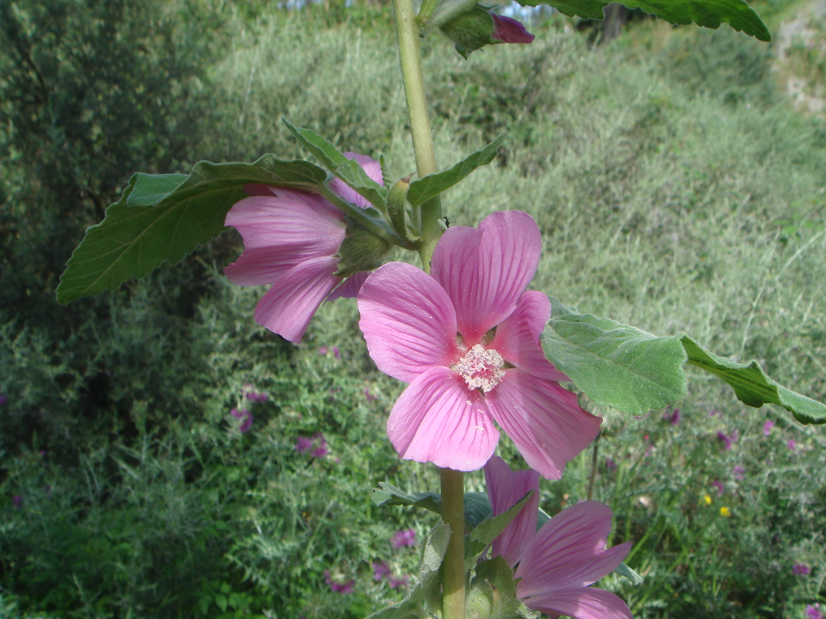 Tree lavatera, Spain, Ceuta.